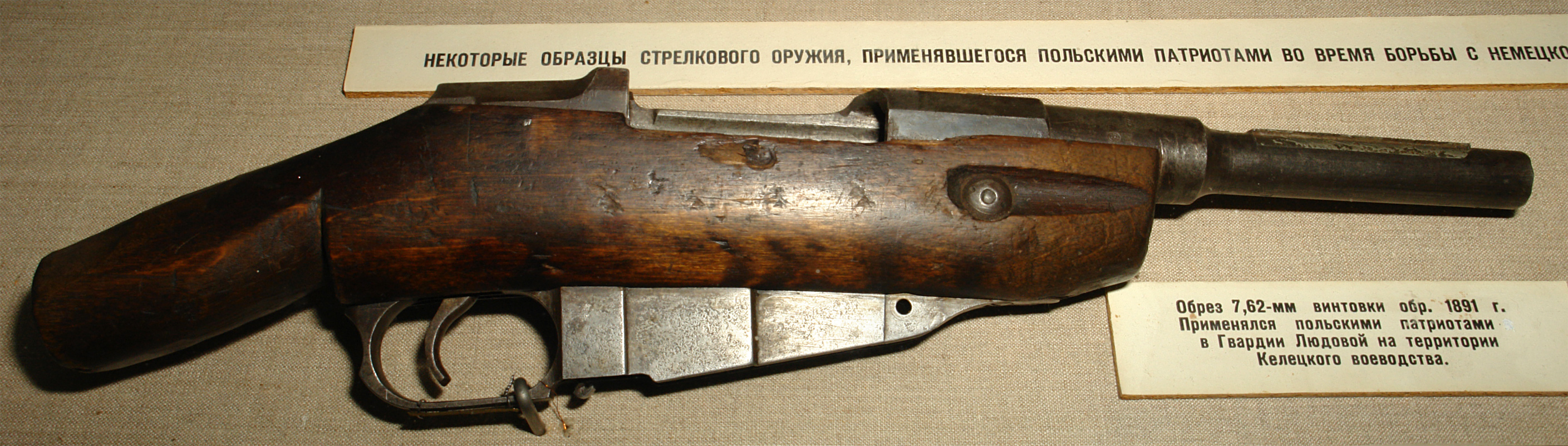 A cutoff Mosin-Nagant M91 used by Polish patriots of the Gwardia Ludowa (People's Guard) in the Kielce Voivodeship. The inscription above the rifle reads: "Some samples of firearms used by the Polish patriots fighting the German Nazi invaders".